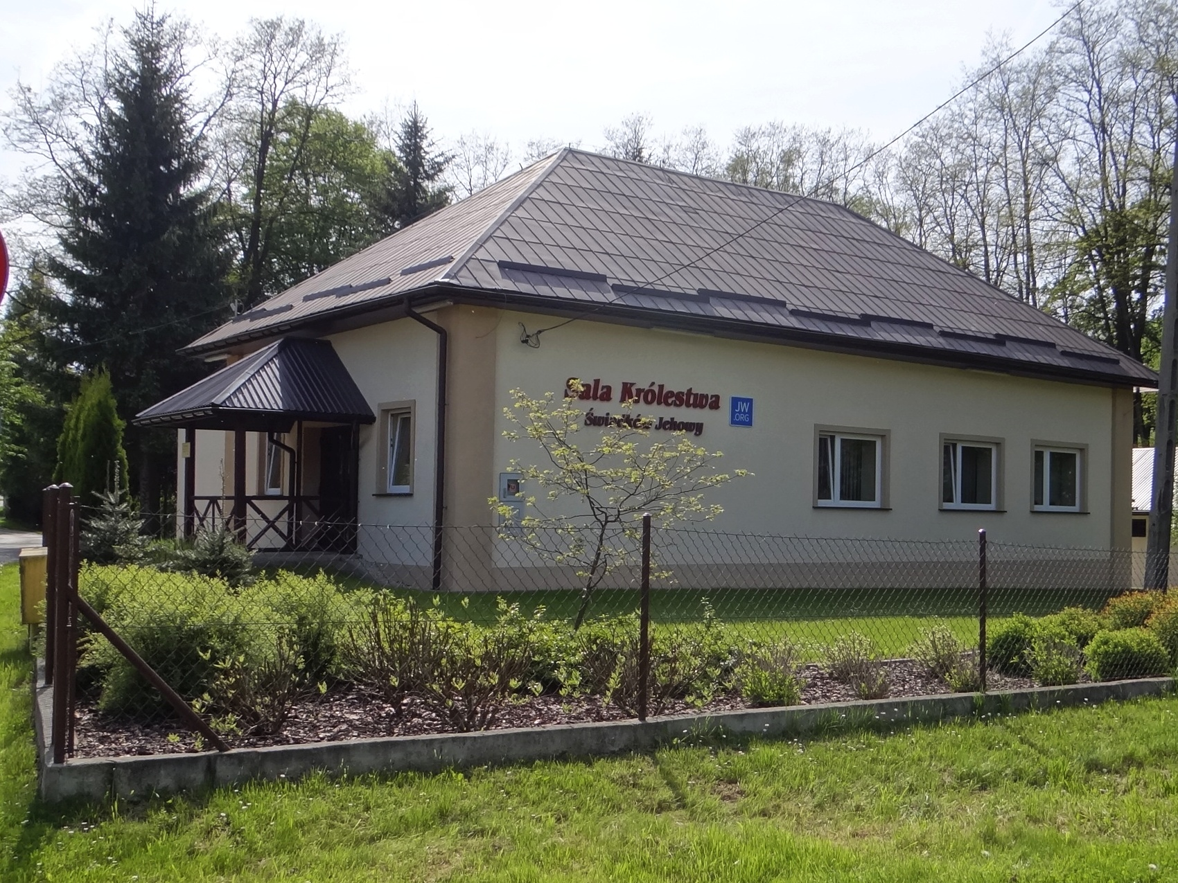 Kingdom Hall of Jehovah's Witnesses, Rzepiennik Marciszewski, Poland